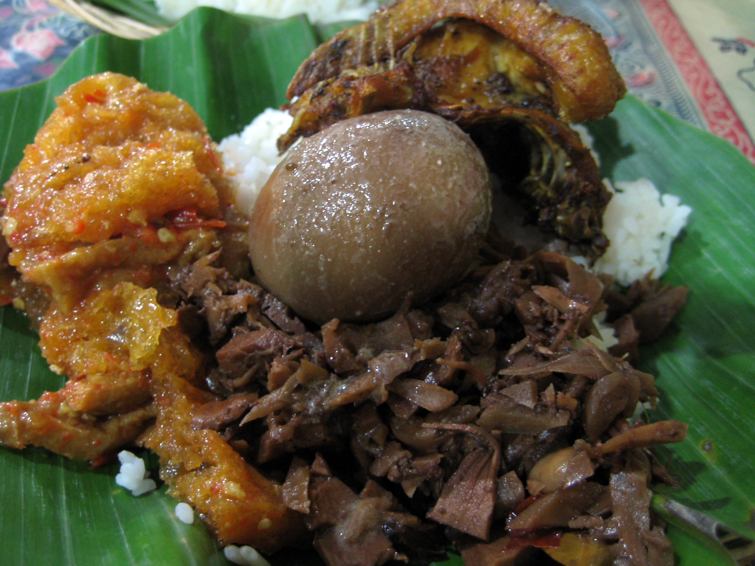 Nasi Gudeg, Jalan Malioboro, Yogyakarta